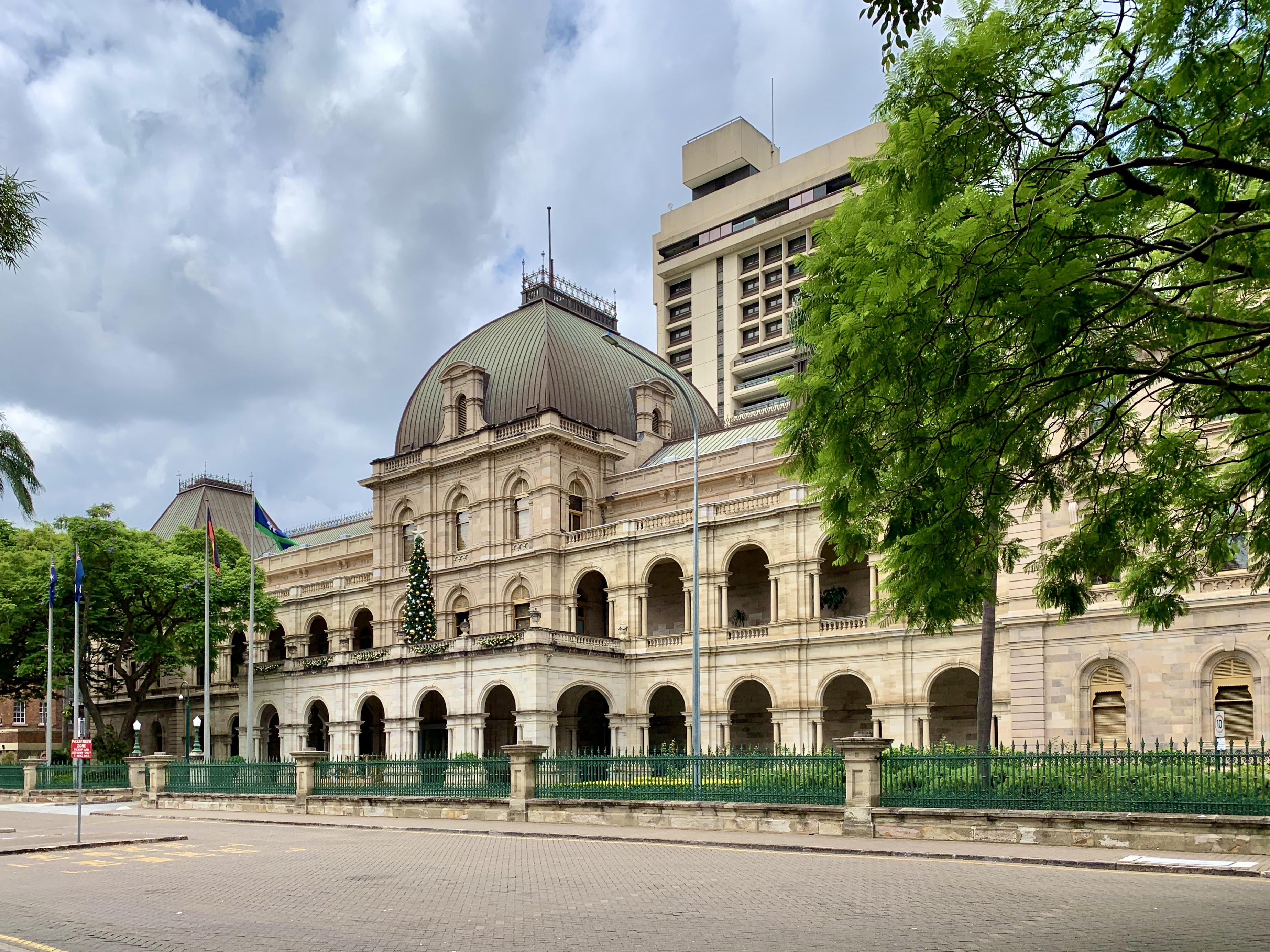 Parliament House, Brisbane, Queensland with Christmas tree in 2019